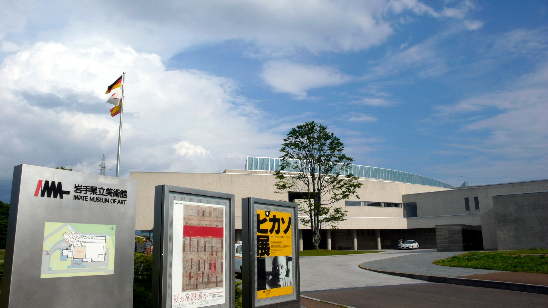 Iwate Museum of Art in Morioka-shi, Iwate pref., Japan.